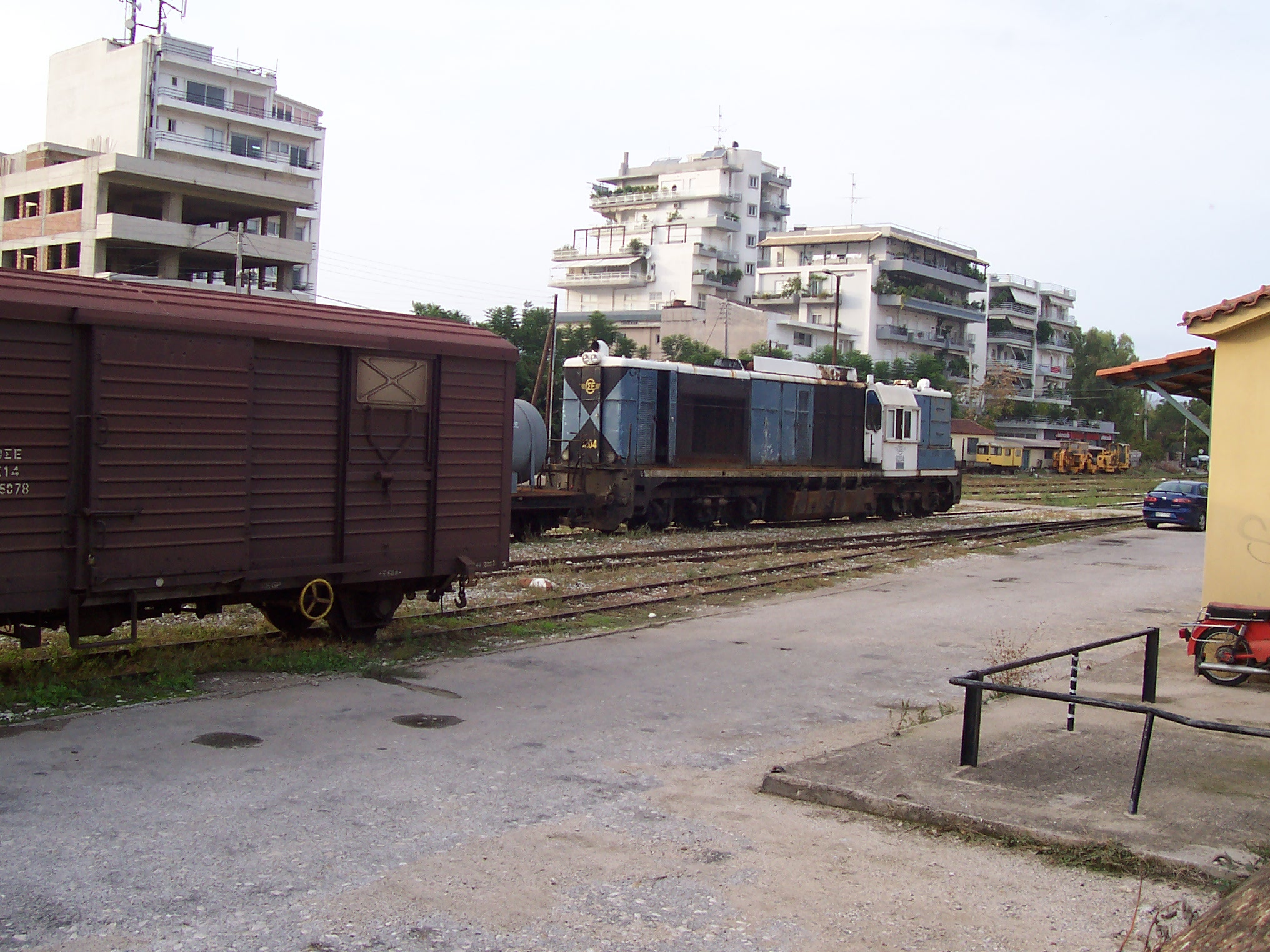 Narrow gauge (1000mm) diesel locomotive marked 9204, located in freight railway station in Patras, Greece. Geo coordinates: lat=38.2398035311703, lon=21.727557339483123